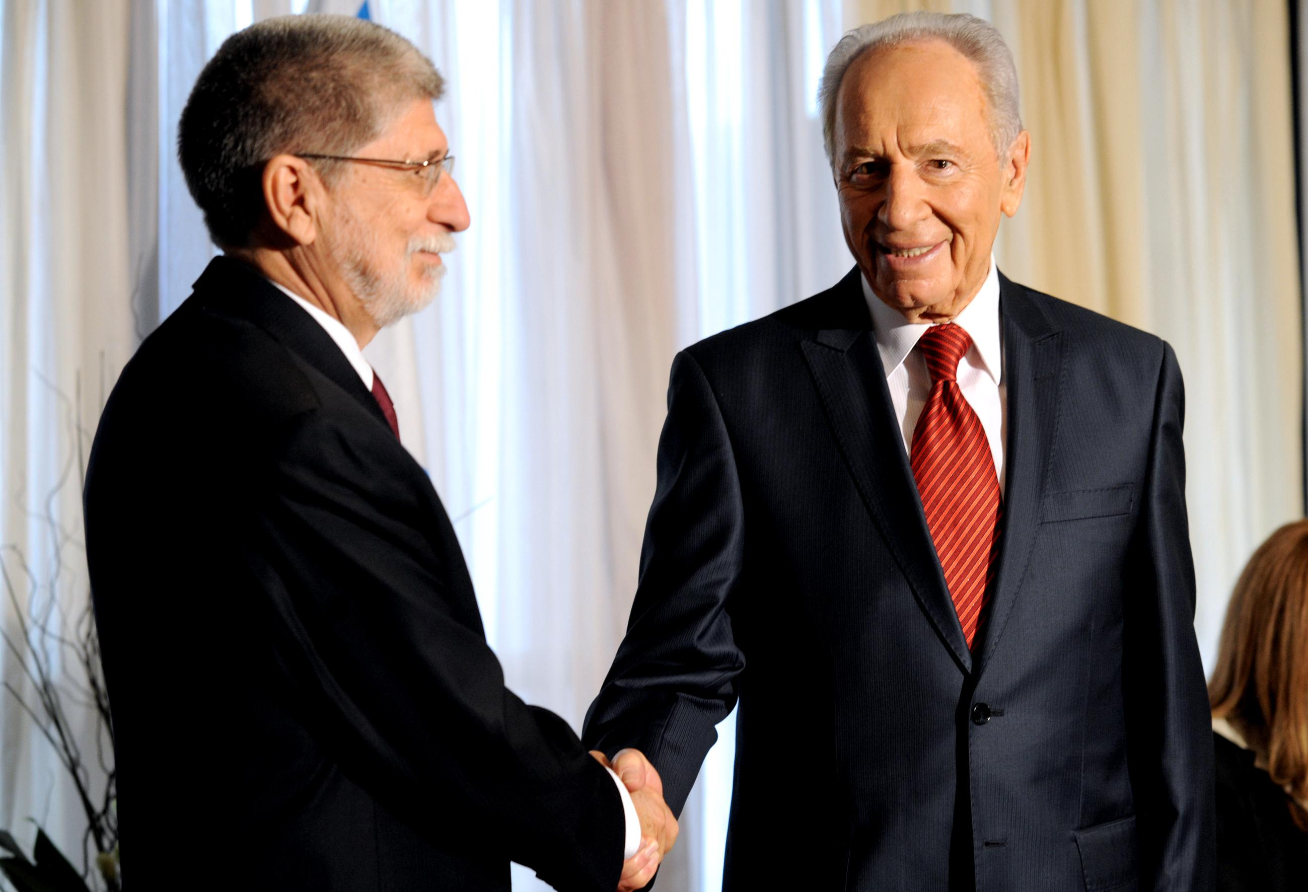 Brazilian Foreign Minister Celso Amorim and Israeli President Shimon Peres.